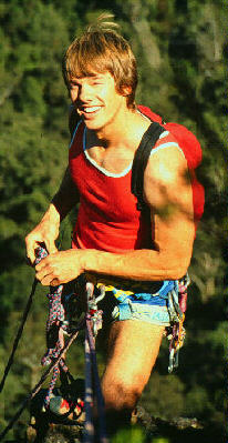 David Noble, the discoverer of the Wollemi Pine, on top of the Second of the Three Sisters in Katoomba, New South Wales, Australia.